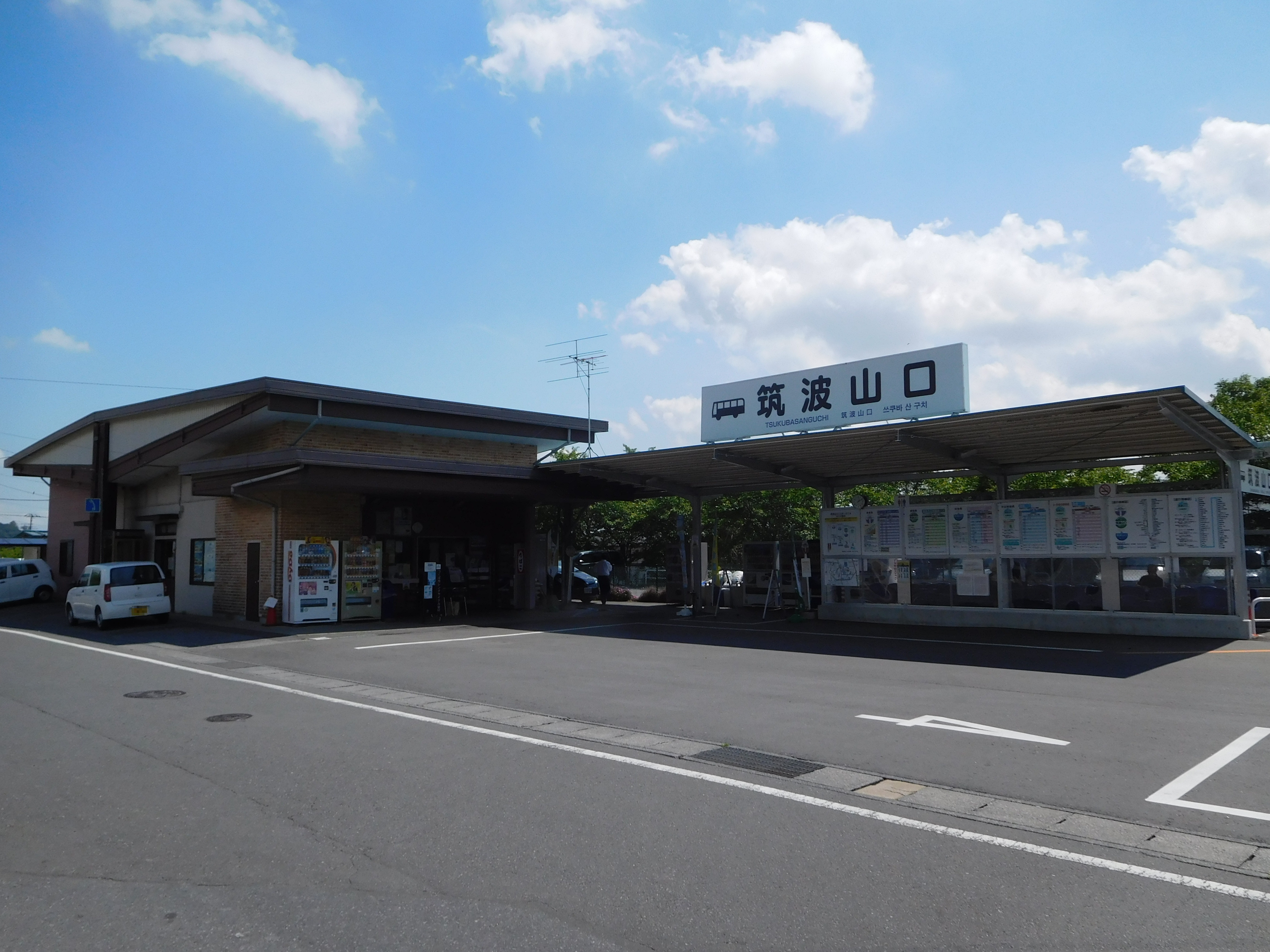 This is Tsukubasanguchi Bus Terminal in Tsukuba, Ibaraki, Japan.